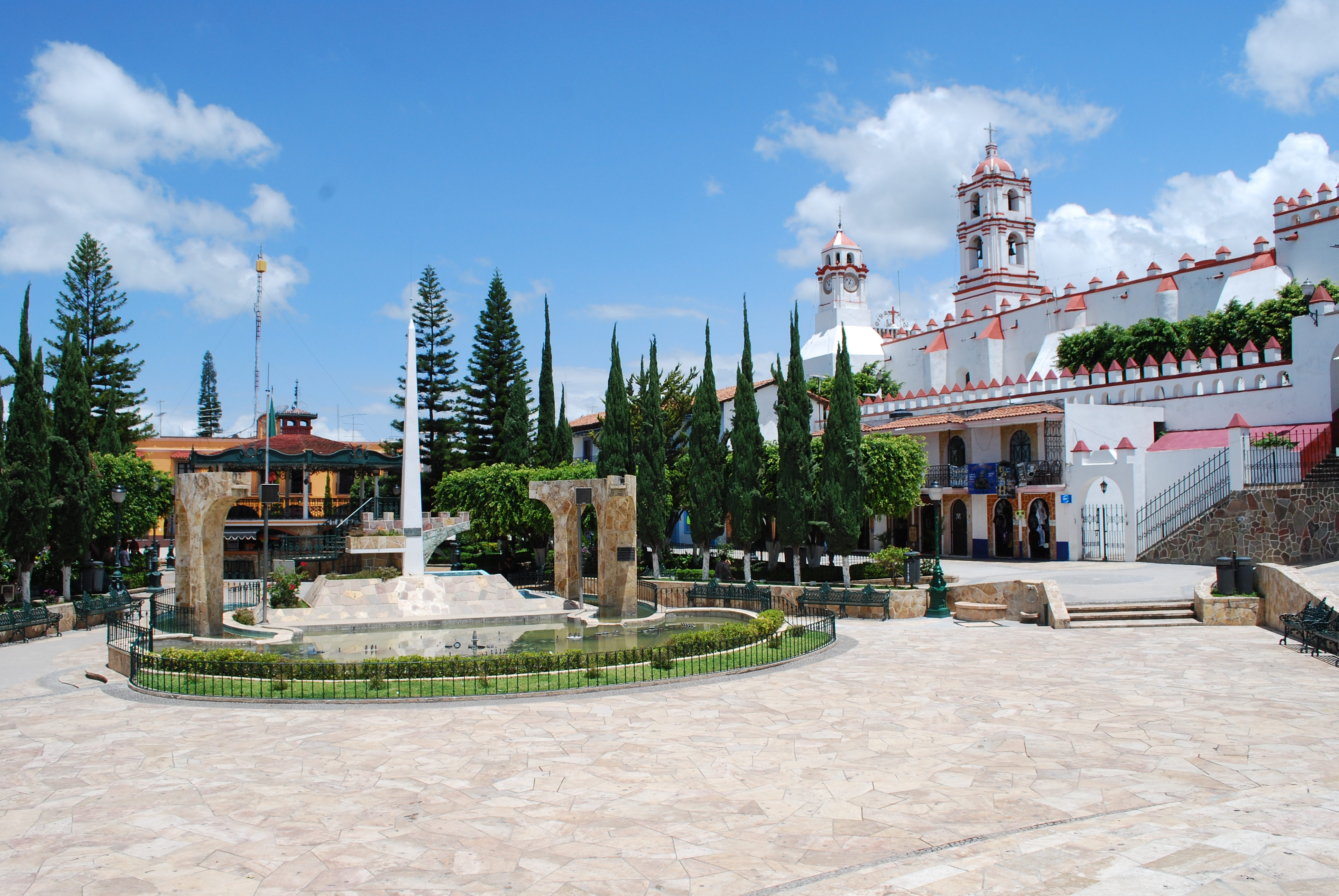 Overview of the main plaza with church on the side in Ixtapan de la Sal, Mexico State, Mexico